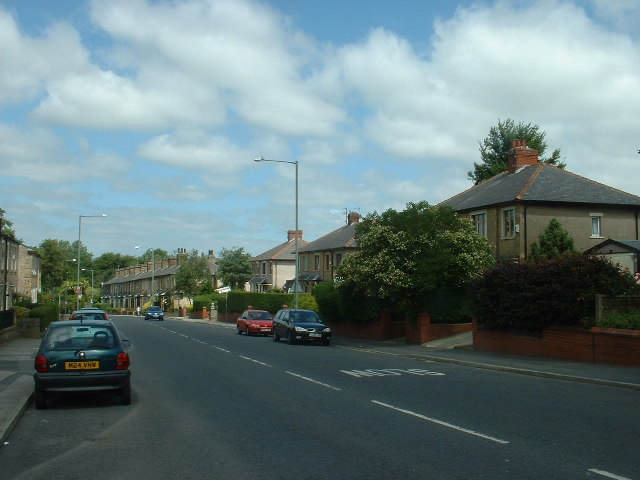 Todmorden Road, Burnley. Looking east...the road runs down towards Turf Moor, home of Burnley Football Club.